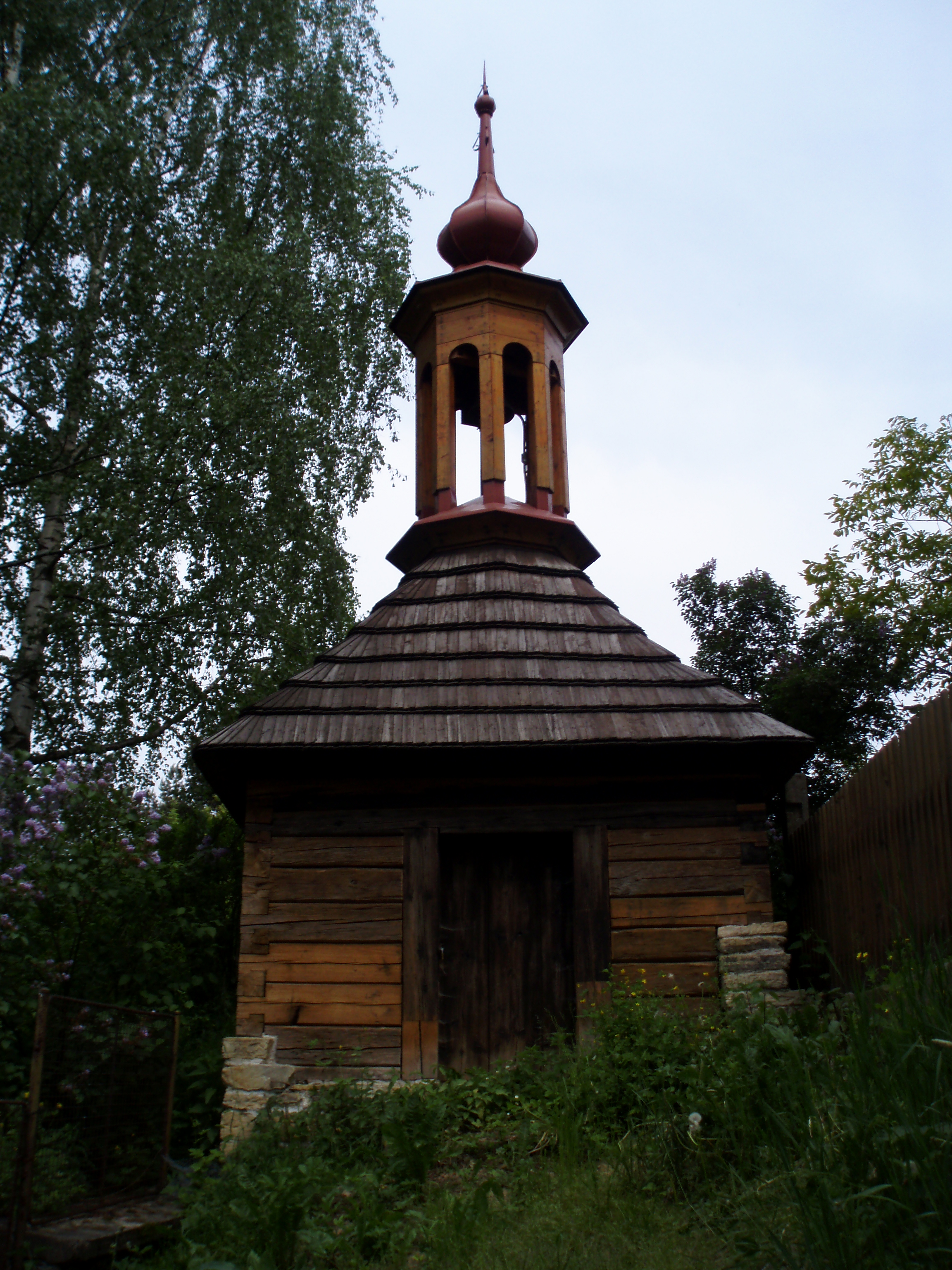 Chapel in Mezilečí (District of Náchod)